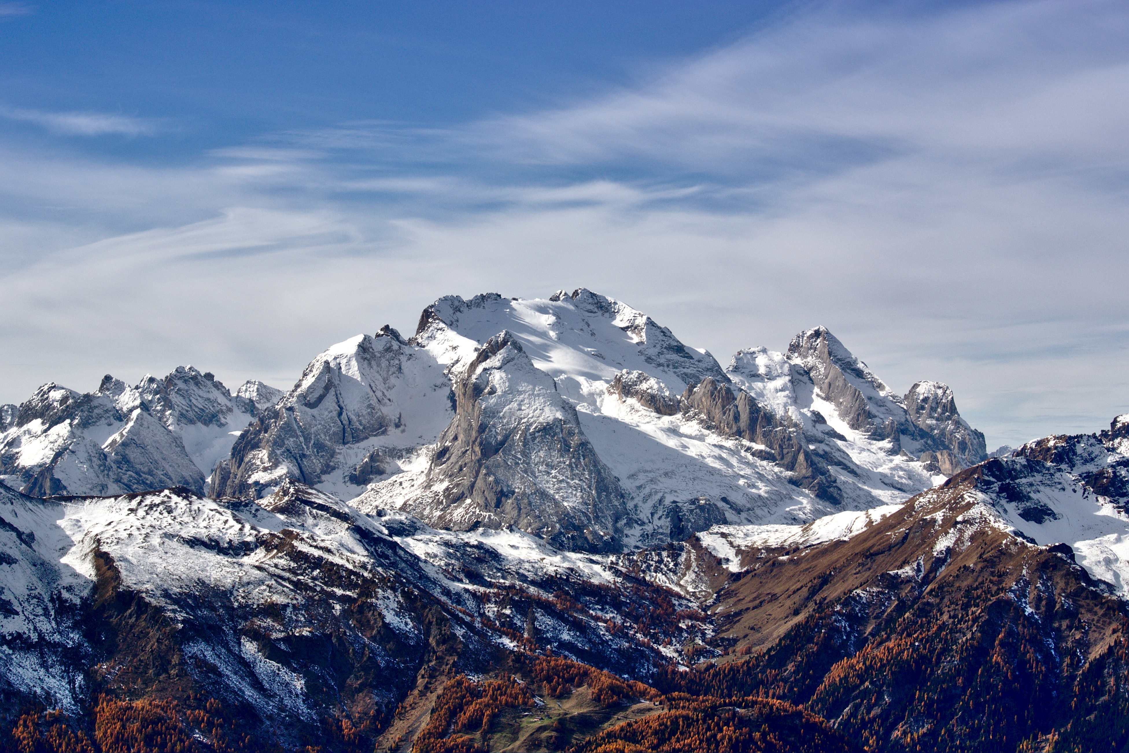 Marmolada (3343 m) is a mountain in northeastern Italy and the highest mountain of the Dolomites range.